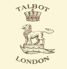 The original 1908 version of the logo for the Talbot car made by Clément-Talbot Sunbeam car company Heraldic crest of the Talbot family, Earls of Shrewsbury.